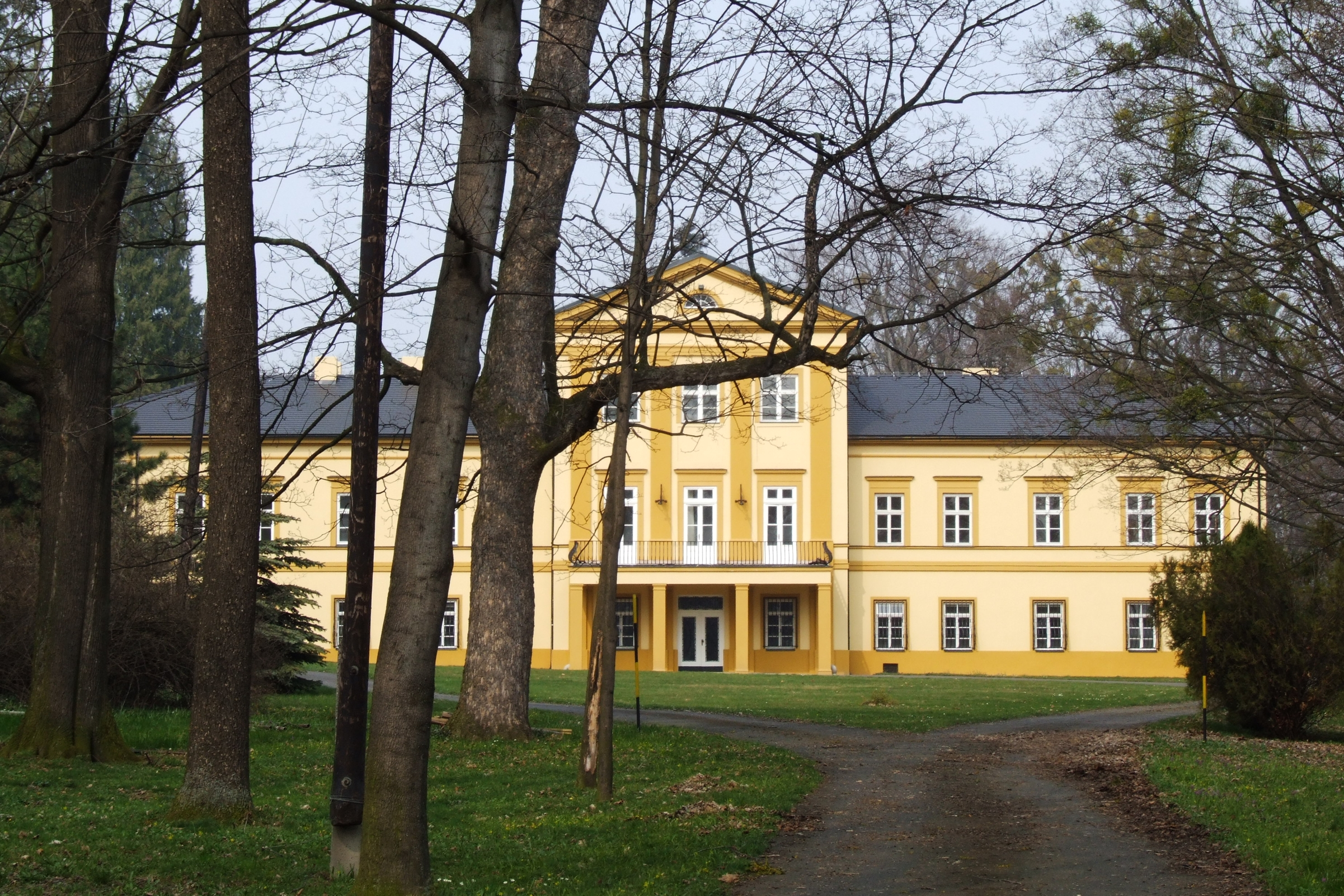 Castle in Holasovice-Štemplovec (Stremplowitz), Czech Silesia